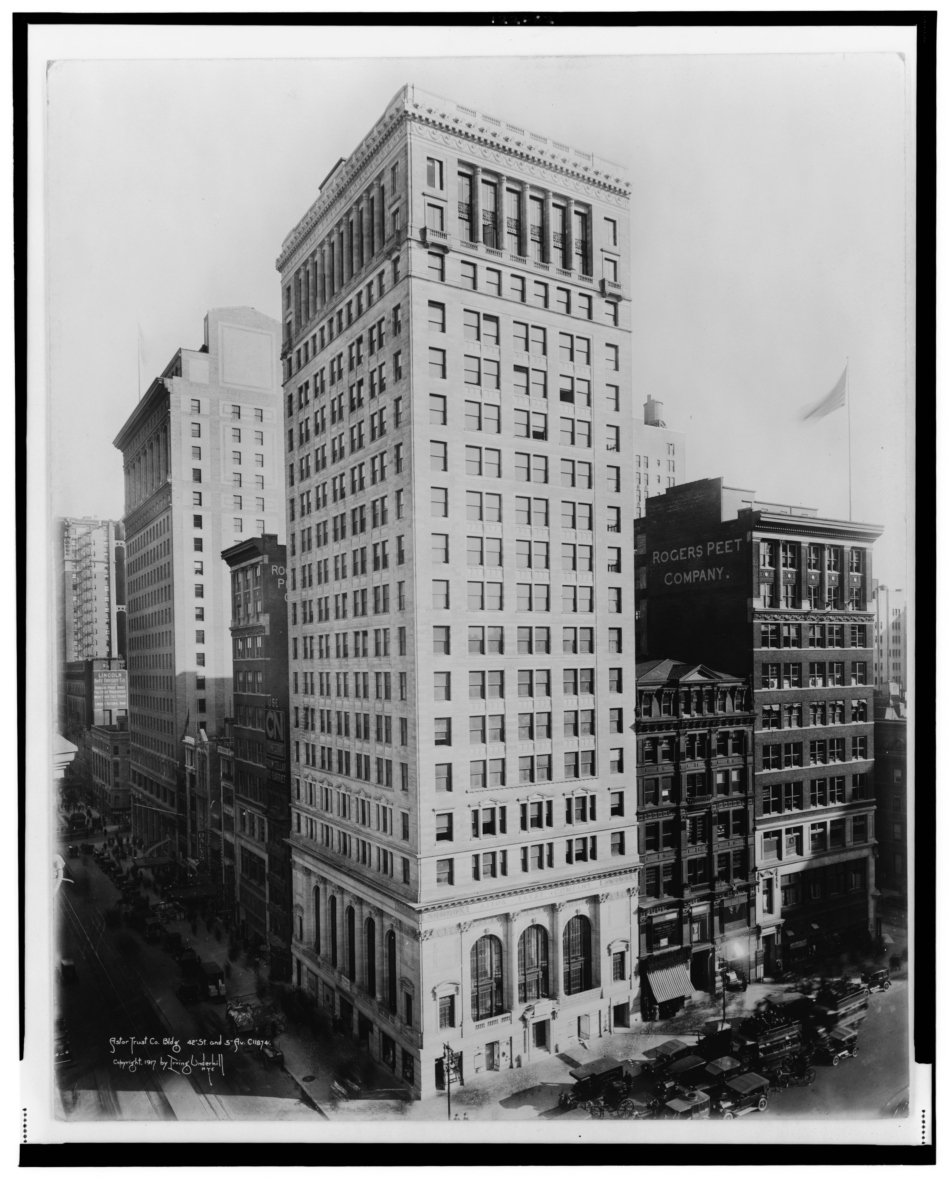 Title: Astor Trust Co. Bldg., 42nd St. and 5th Av. Abstract/medium: 1 photographic print.